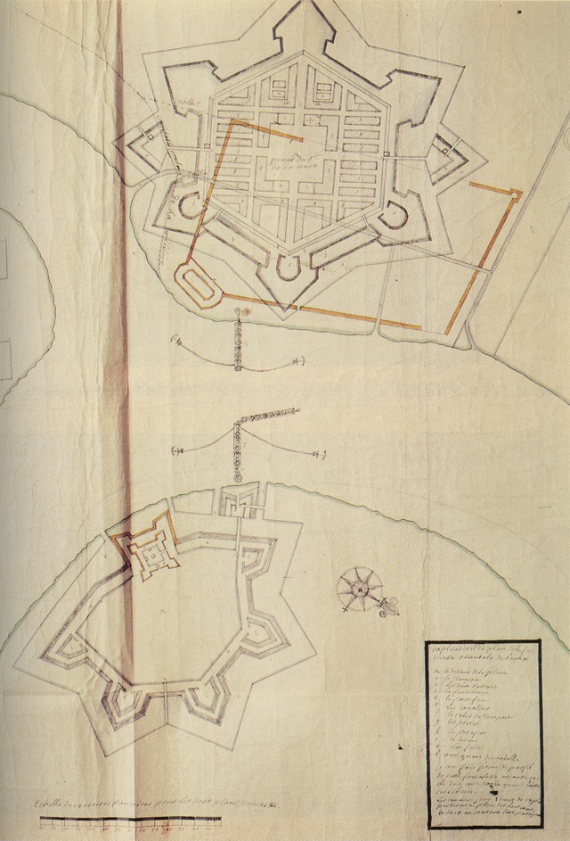 Plan for construction of river forts at Bangkok, by French engineer Monsieur de Lamare, from Michel Jacq-Hergoualc’h. L’Europe et le Siam du XVIe au XVIIIe Siecle. Paris: L’Harmattan, 1993.